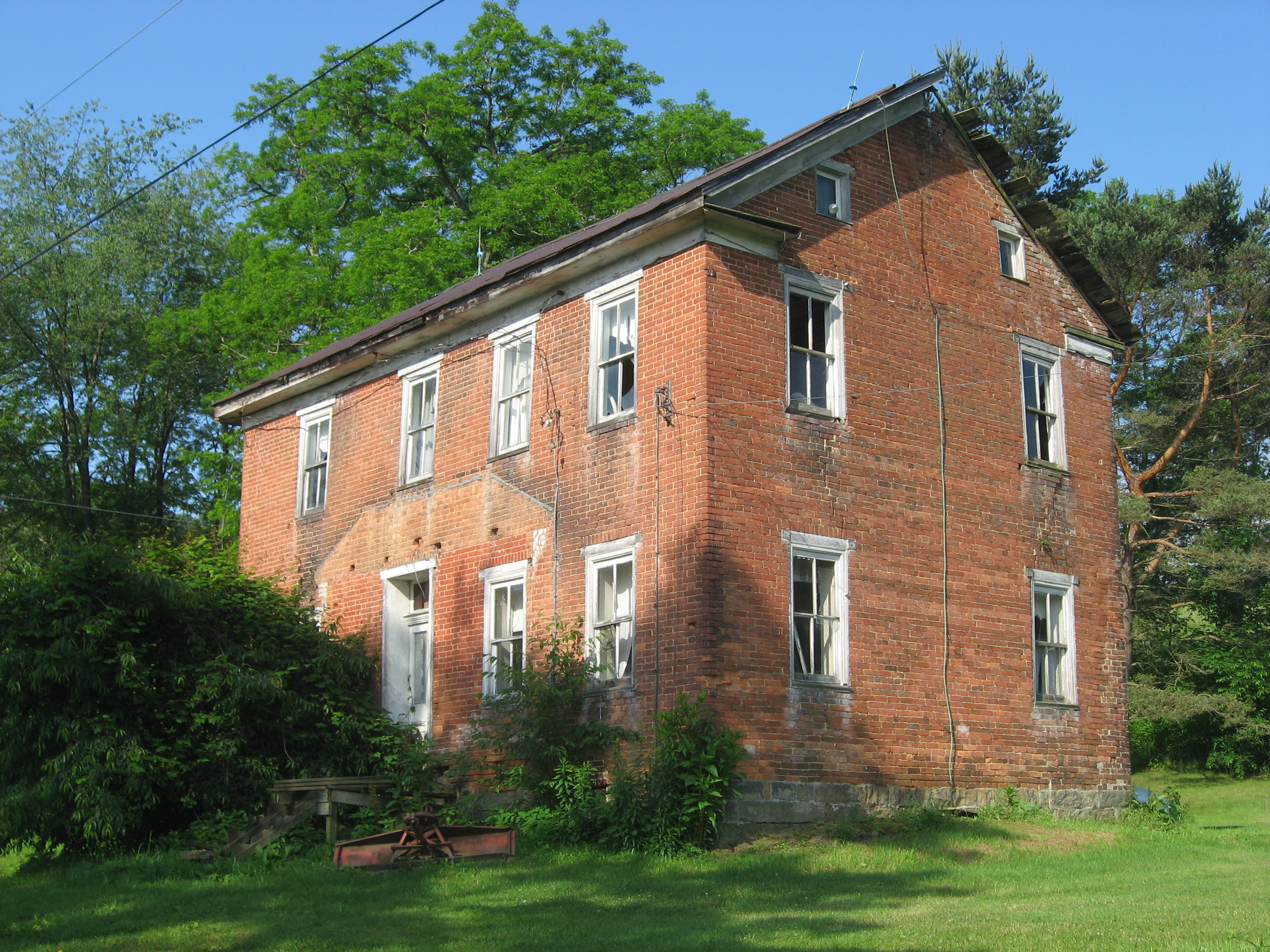 Front and northern side of the William P. Hay House, located along the western side of Jimtown Road in Jefferson Township, Somerset County, Pennsylvania, United States. It was built circa 1870 in the then-antiquated Federal style.